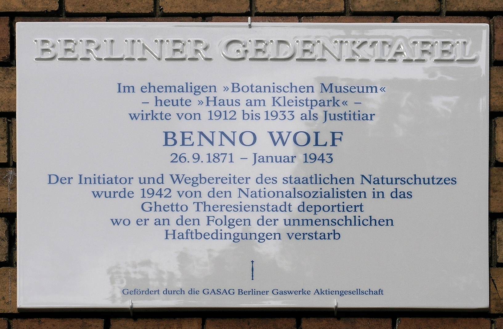 Berlin memorial plaque, Benno Wolf, Grunewaldstraße 6, Berlin-Schöneberg, Germany Koordinate:52°29′26″N 13°21′26″E / 52.49056°N 13.35722°E